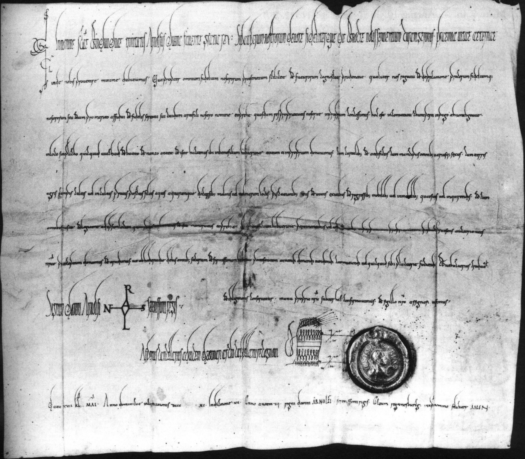 A charter of donation by king Arnulf of Carinthia, issued on April 15th, 890 at Regensburg. München, Bayerisches Hauptstaatsarchiv, Kaiserselekt 73.